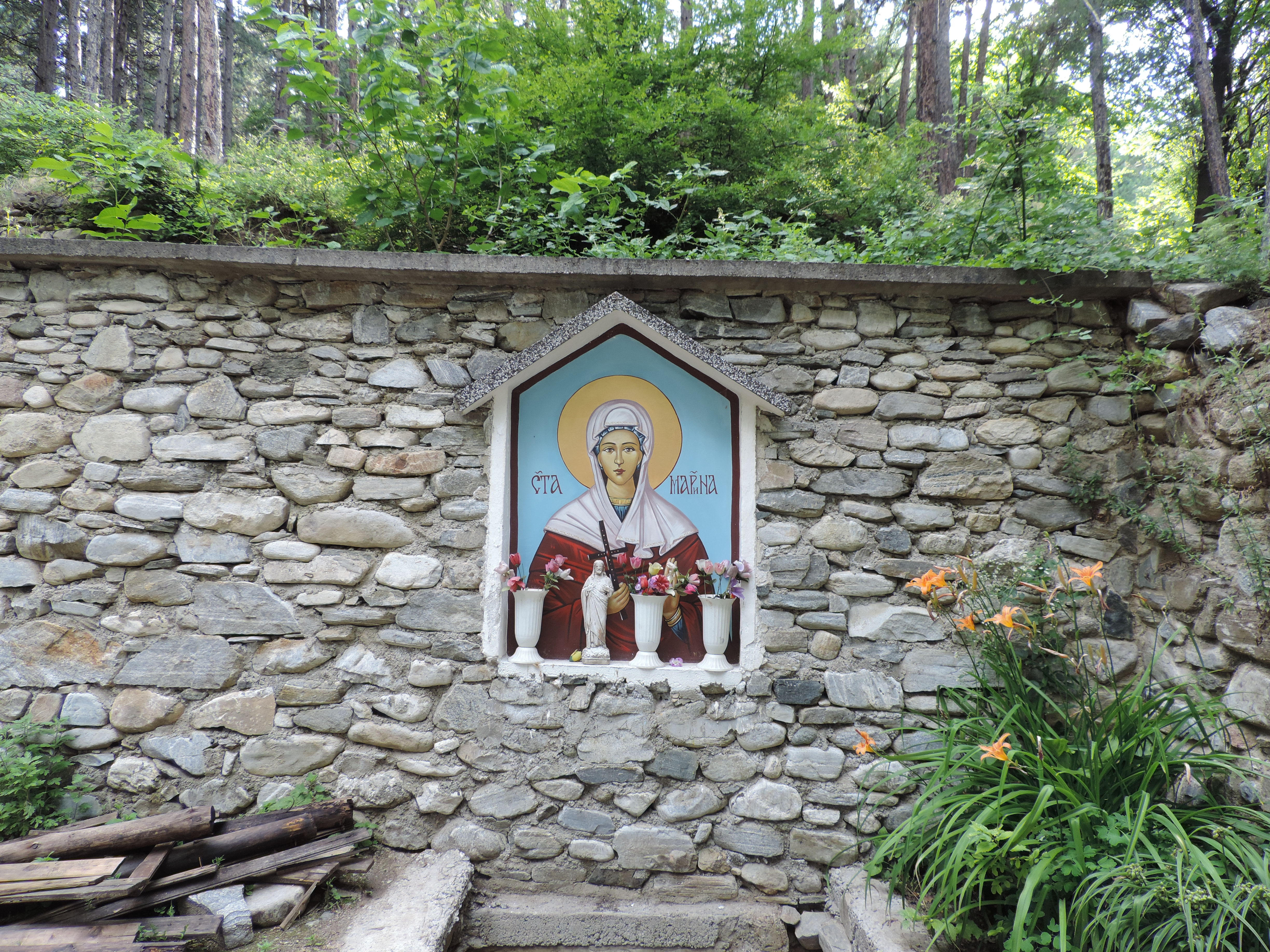 Saint Marina protected area, Bulgaria